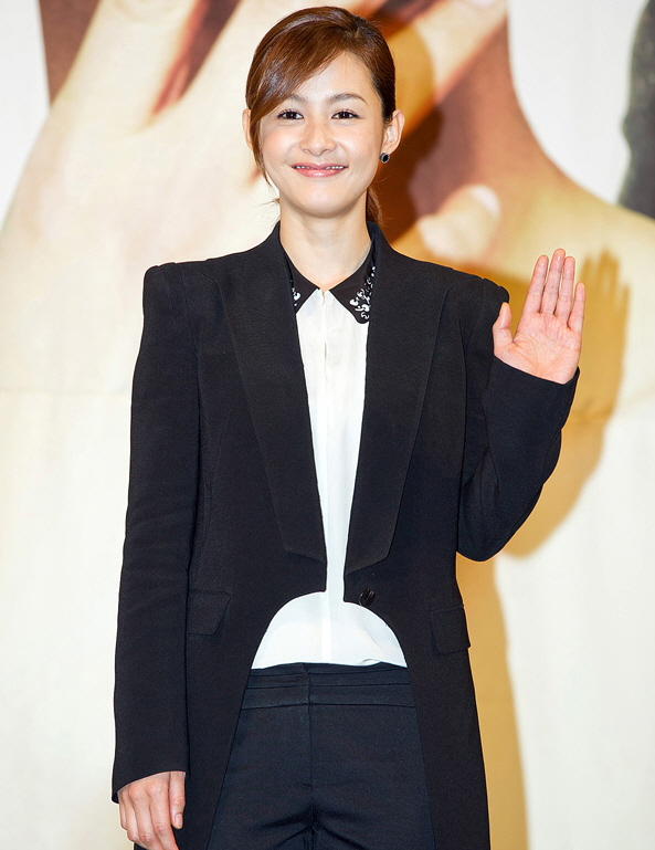 Kang Hye-jung at The Wedding Scheme (tvN, 2012) premiere, on March 30, 2012